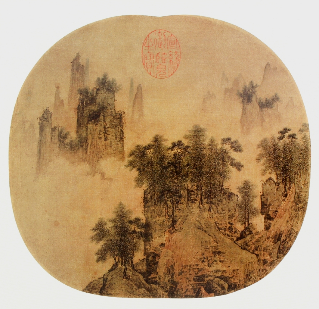 Yan Wengui, Strange Peaks and Myriad Trees, album leaf, NPM, Taipei